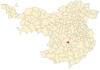 Salt